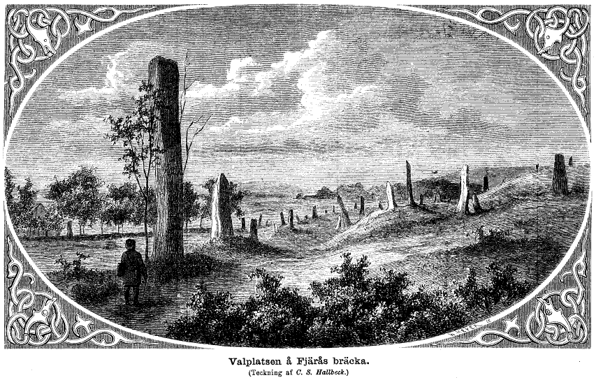 "The battle field at Fjärås bräcka" is a drawing by C. S. Hallbeck, showing the standing stones at Li in Fjärås parish, Fjäre hundred, Kungsbacka municipality, Halland, Sweden.